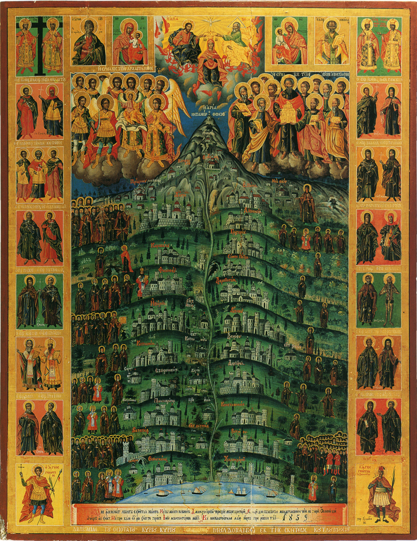 Saints of Mount Athos